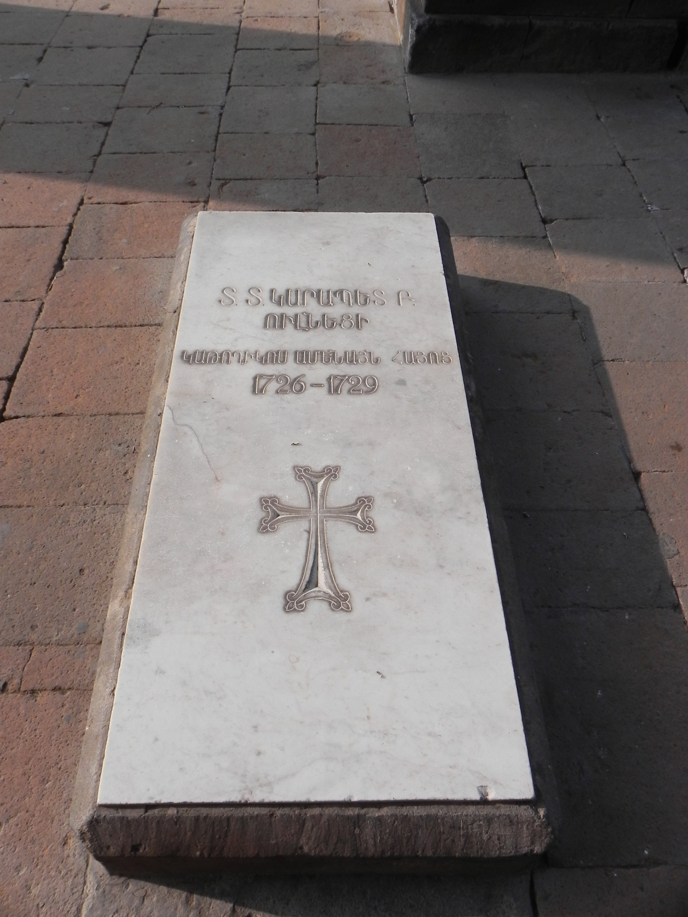 Tombstone of Karapet II, Catholicos of All Armenians at Hripsime church in Armenia